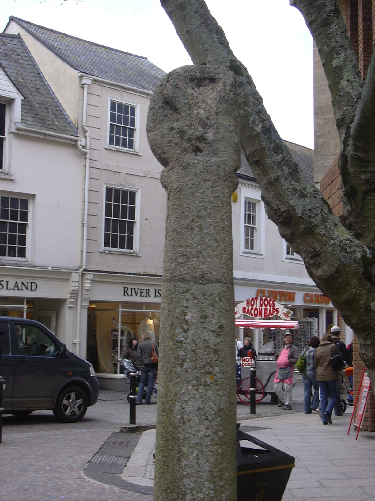 High Cross, Truro: Truro Cathedral, Open space by West Door, showing ancient cross. This image is the uploader's own work and may be considered PD.Vernon White (talk) 23:52, 23 March 2007 (UTC)